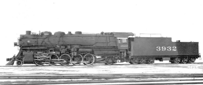 Baldwin Builders' Portrait of Santa Fe's #3932--a 2-10-2 locomotive.